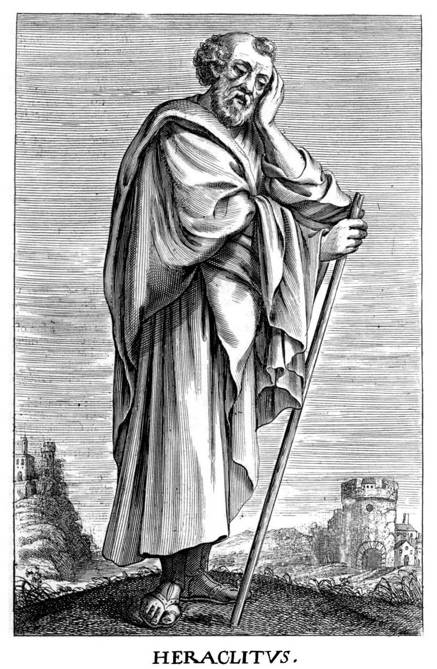 Heraclitus, ancient Greek philosopher. From Thomas Stanley, (1655), The history of philosophy: containing the lives, opinions, actions and Discourses of the Philosophers of every Sect, illustrated with effigies of divers of them.